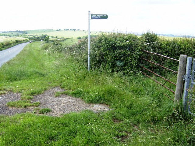 Entrance to bridleway B26 On the east-west ridge across the island, a northward bridleway heads towards Nunwell Farm, here part of the Bembridge Trail. The Isle of Wight has an excellent reputation for marking its rights of way.